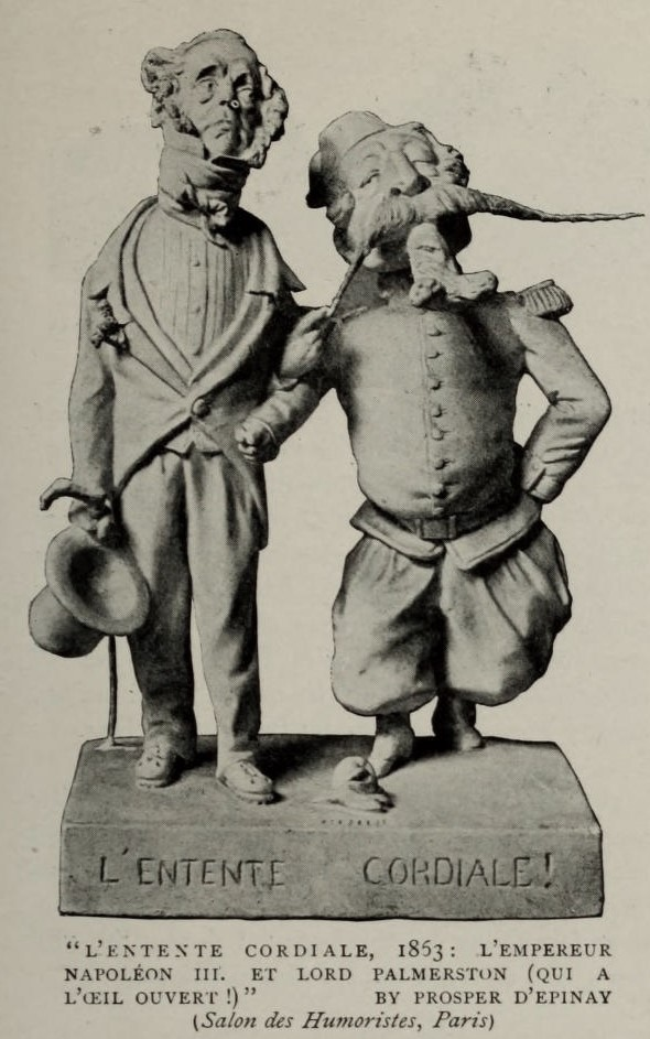 L'Entente Cordiale 1863, by Prosper d'Epinay, Salon des Humoristes, Paris